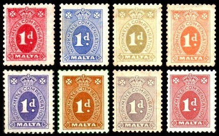 Workmen's Compensation revenue stamps of Malta 1929-43.